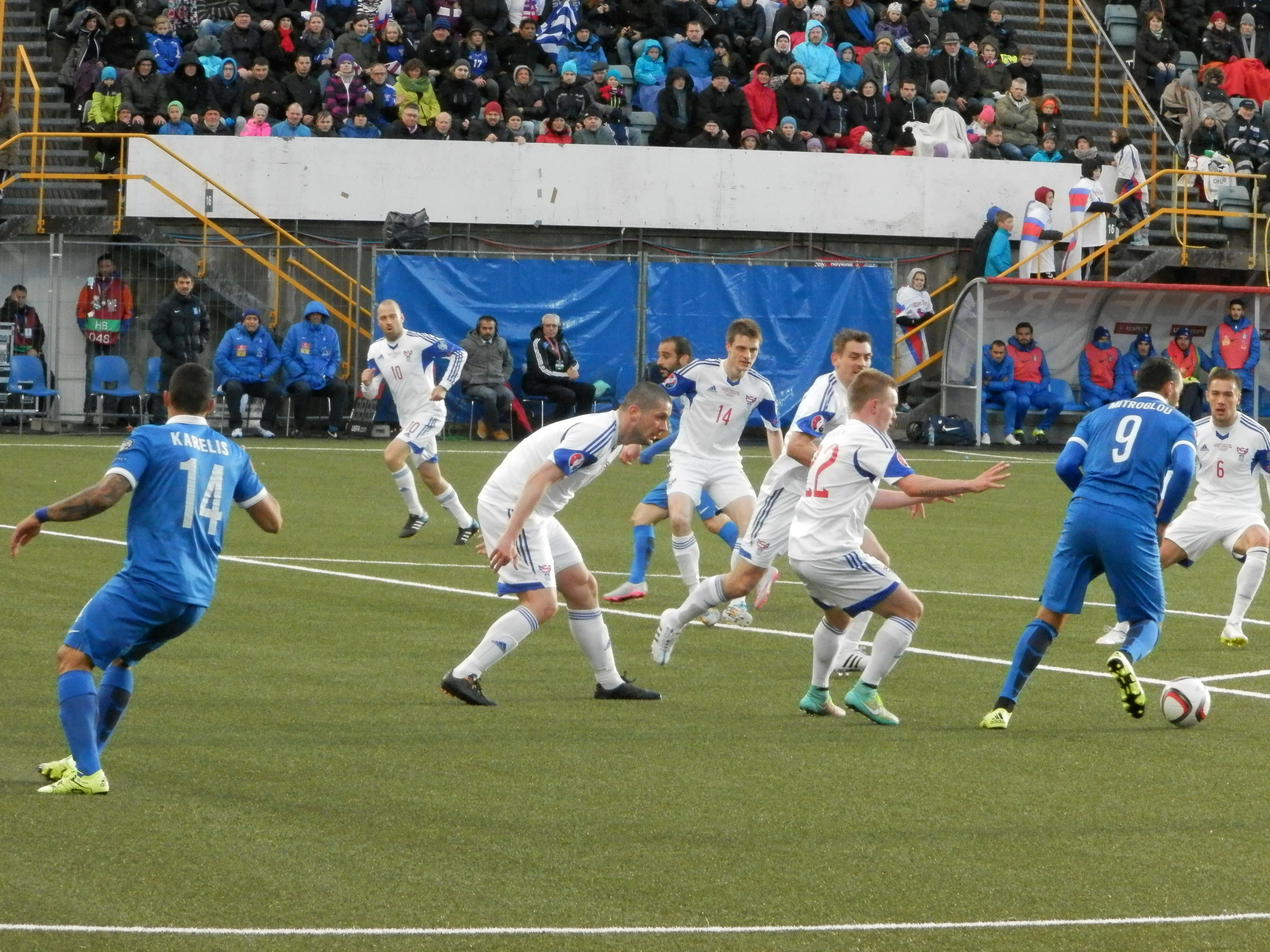 From the football match between the Faroe Islands vs Greece, played on Tórsvøllur Stadium in Tórshavn on 13 June 2015. Faroe Islands won the match 2-1.